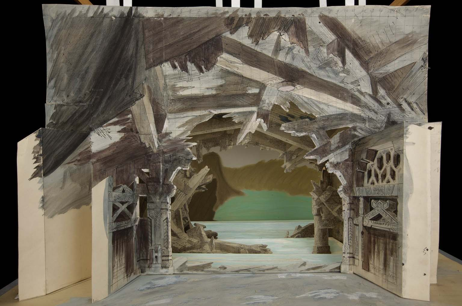 Dubosq's scale-model for Wagner's "Le crépuscule des dieux" (Opéra, Paris, 1908), Act III, scene 2